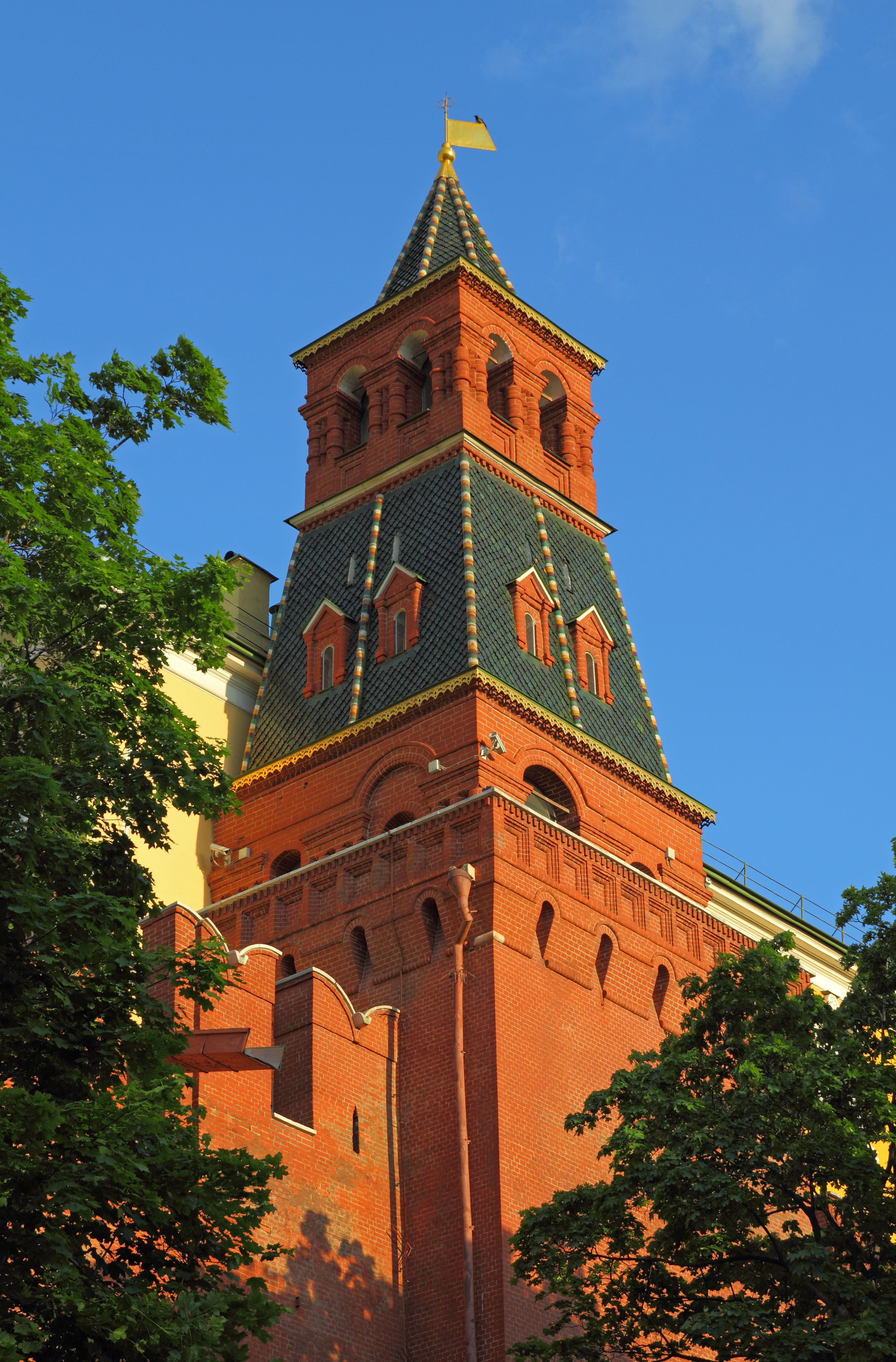 Moscow, Russia. Komendantskaya (Commandant) Tower of the Moscow Kremlin.